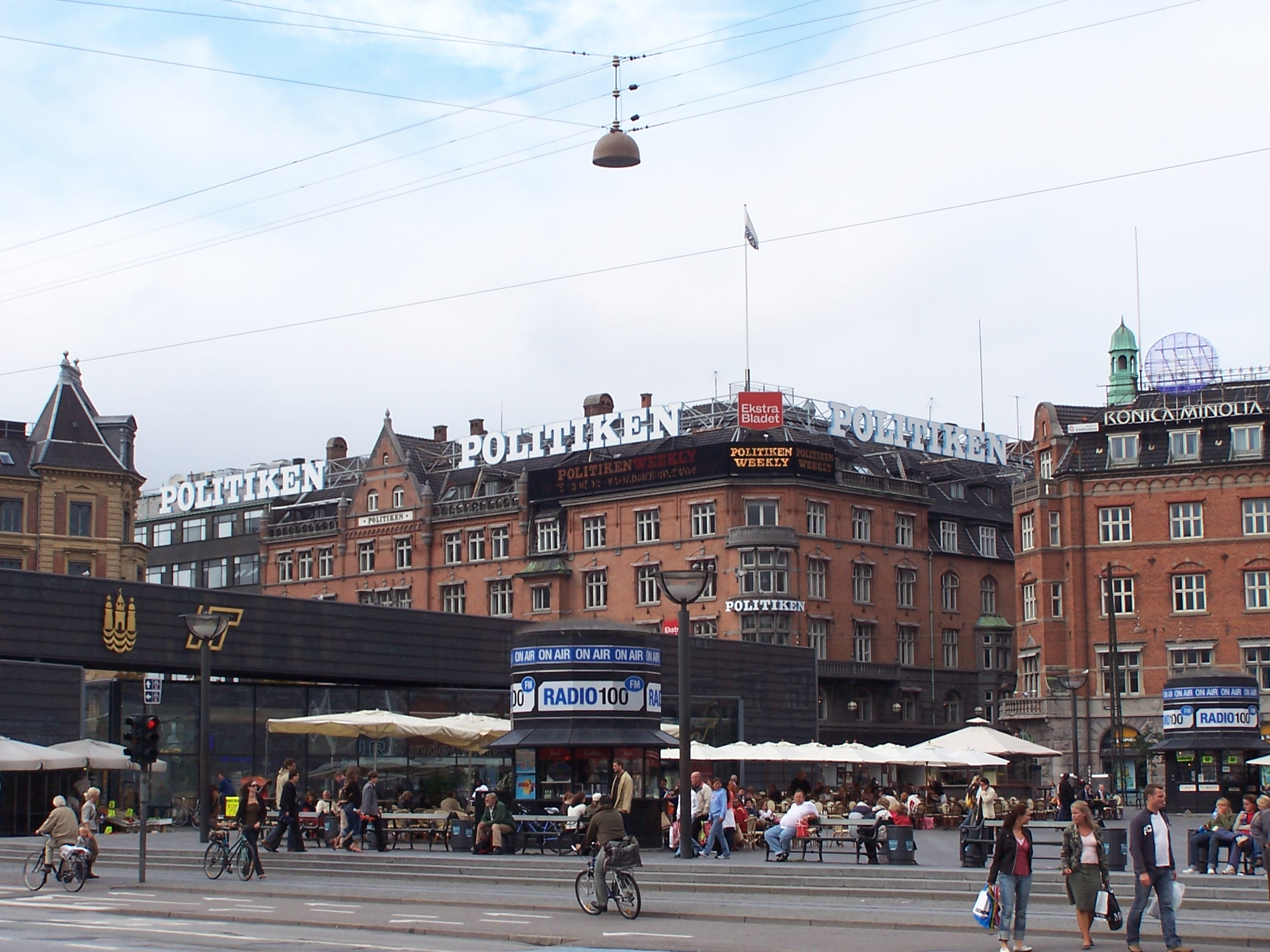 The newspaper Politiken Building in Copenhagen.